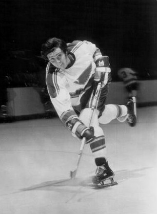 Photo of Mike Murphy as a member of the St. Louis Blues.